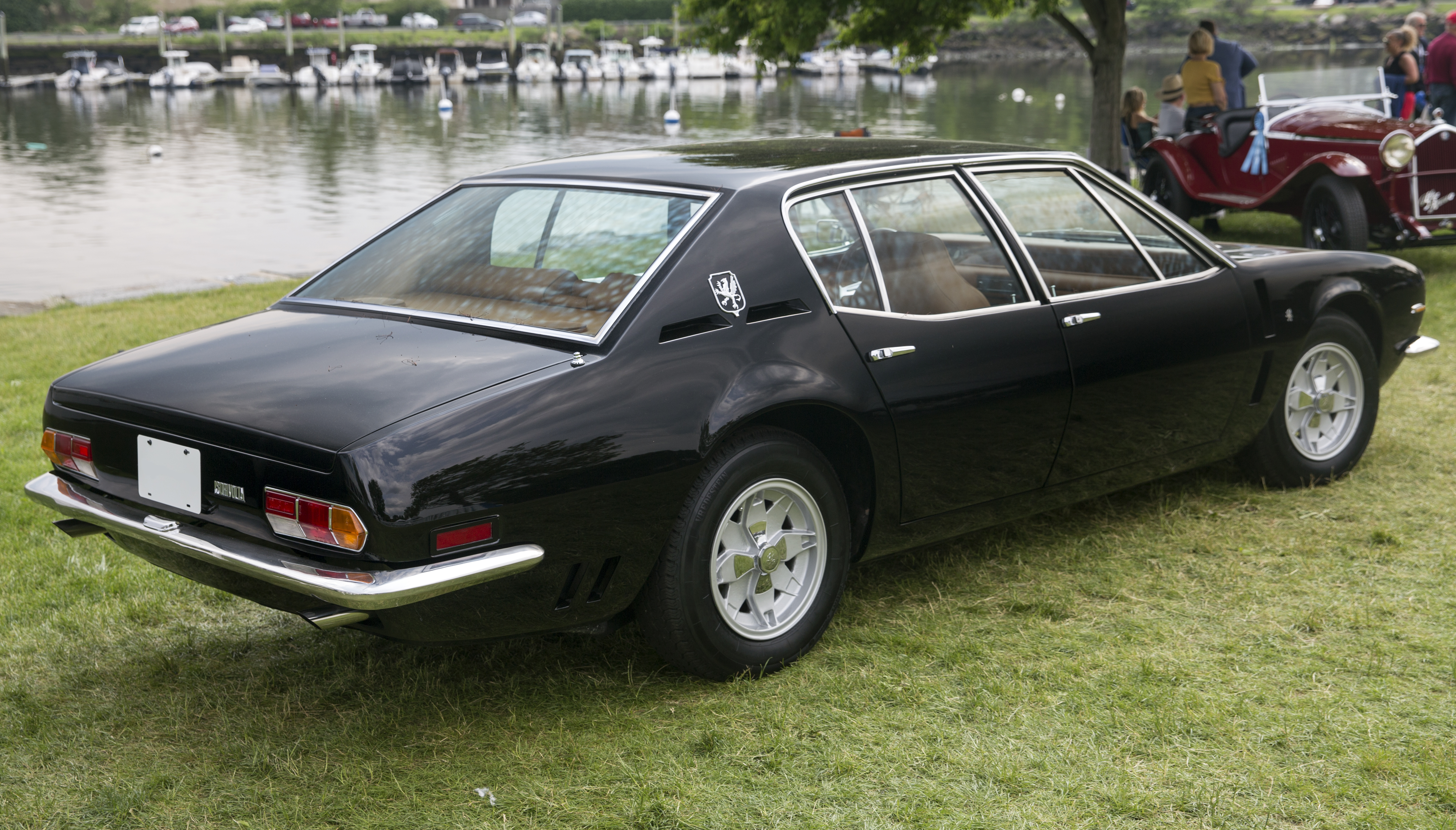 1971 Iso Fidia in Black over Cognac leather at the 2019 Greenwich Concours d'Élegance. One of 15 built in 1971, has received a few intelligent mods such as a hidden modern stereo and an aluminium radiator.